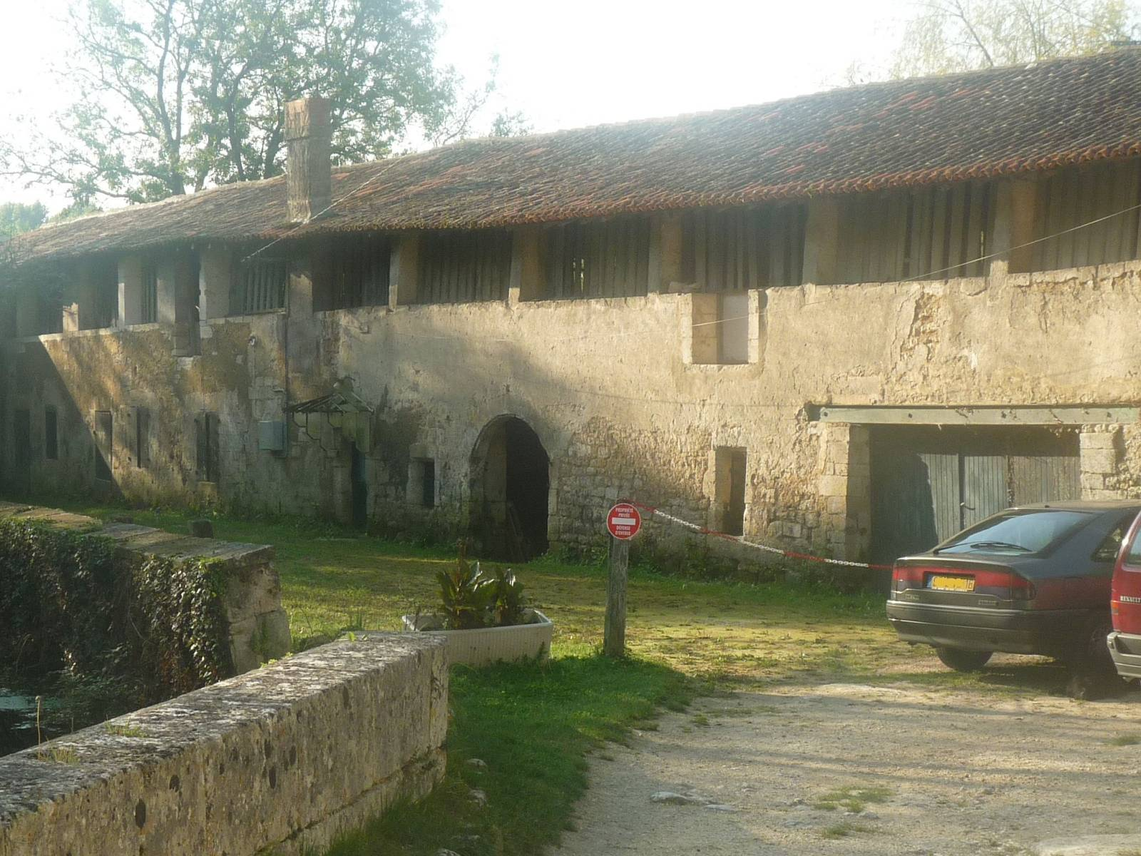 paper mill of Puymoyen, Charente, SW France